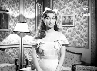 Camellia or Liliane Levy Cohen